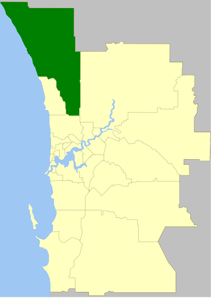 Location of the Local Government Area City of Wanneroo in Perth, Western Australia